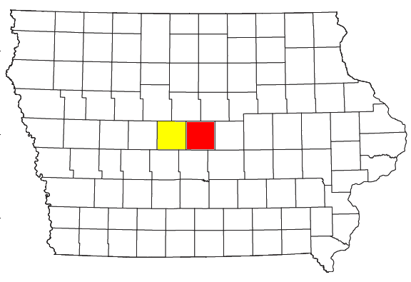 Locator map of the Ames-Boone Combined Statistical Area in the central part of the U.S. state of Iowa. The two components of the CSA are colored separately: Ames Metropolitan Statistical Area: red Boone Micropolitan Statistical Area: yellow